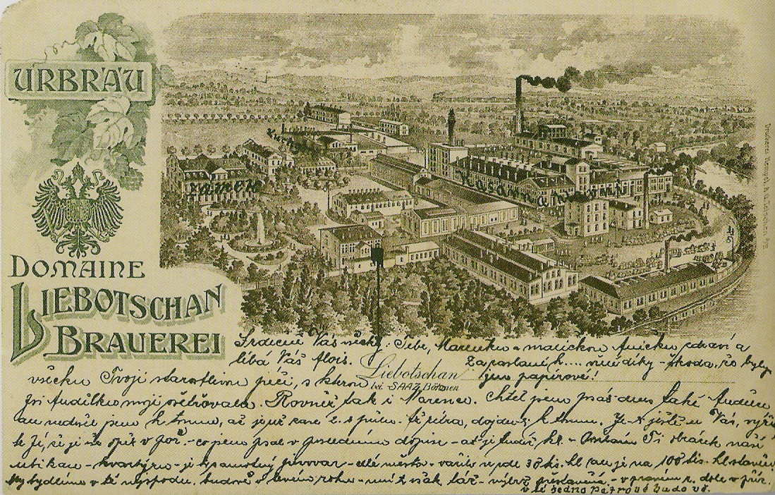 Libočany brewery where so called Liebotschaner Beer was brewed and exported to the USA.